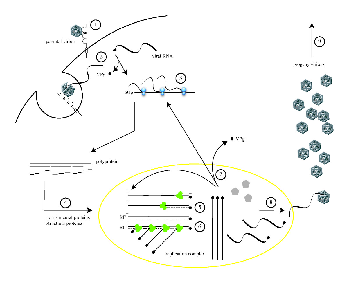 The cellular life cycle of poliovirus. It is initiated by binding of a poliovirion to the cell surface macromolecule CD155, which functions as the receptor (1). Uncoating of the viral RNA is mediated by receptor-dependent destabilization of the virus capsid (2). Cleavage of the viral protein VPg is performed by a cellular phosphodiesterase, and translation of the viral RNA occurs by a cap-independent (IRES-mediated) mechanism (3). Proteolytic processing of the viral polyprotein yields mature structural and non-structural proteins (4). The positive-sense RNA serves as template for complementary negative-strand synthesis, thereby producing a double-stranded RNA (replicative form, RF) (5). Initiation of many positive strands from a single negative strand produces the partially single-stranded replicative intermediate (RI) (6). The newly synthesized positive-sense RNA molecules can serve as templates for translation (7) or associate with capsid precursors to undergo encapsidation and induce the maturation cleavage of VP0 (8), which ultimately generates progeny virions. Lysis of the infected cell results in release of infectious progeny virions (9).